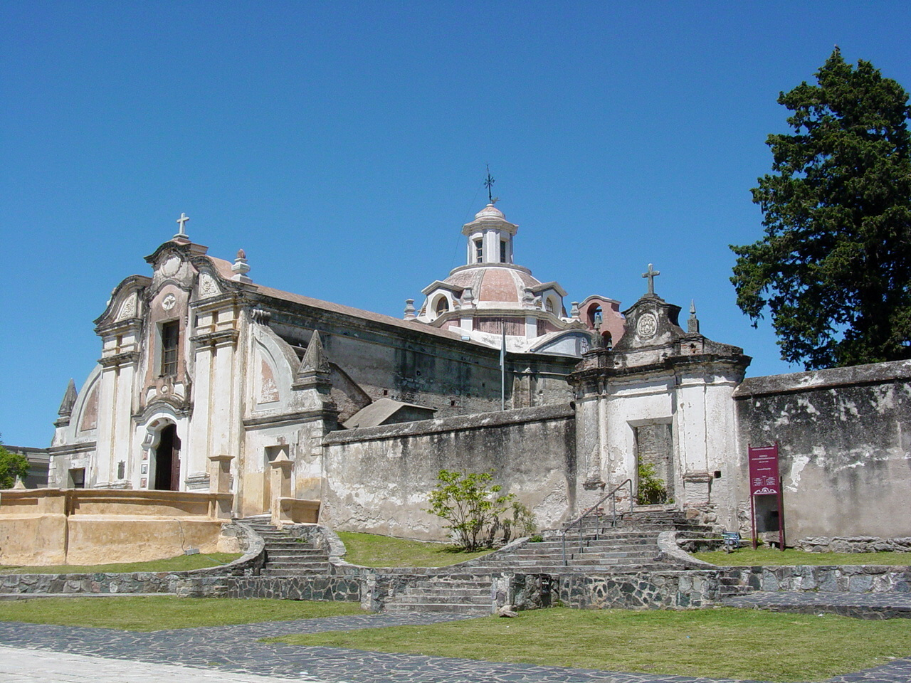 Jesuit mission, Alta Gracia, Argentina. December 2004.